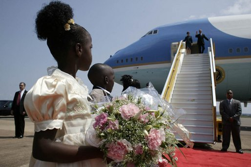 President George W. Bush and Mrs. Laura Bush arrive in Entebbe, Uganda Friday, July 11, 2003.